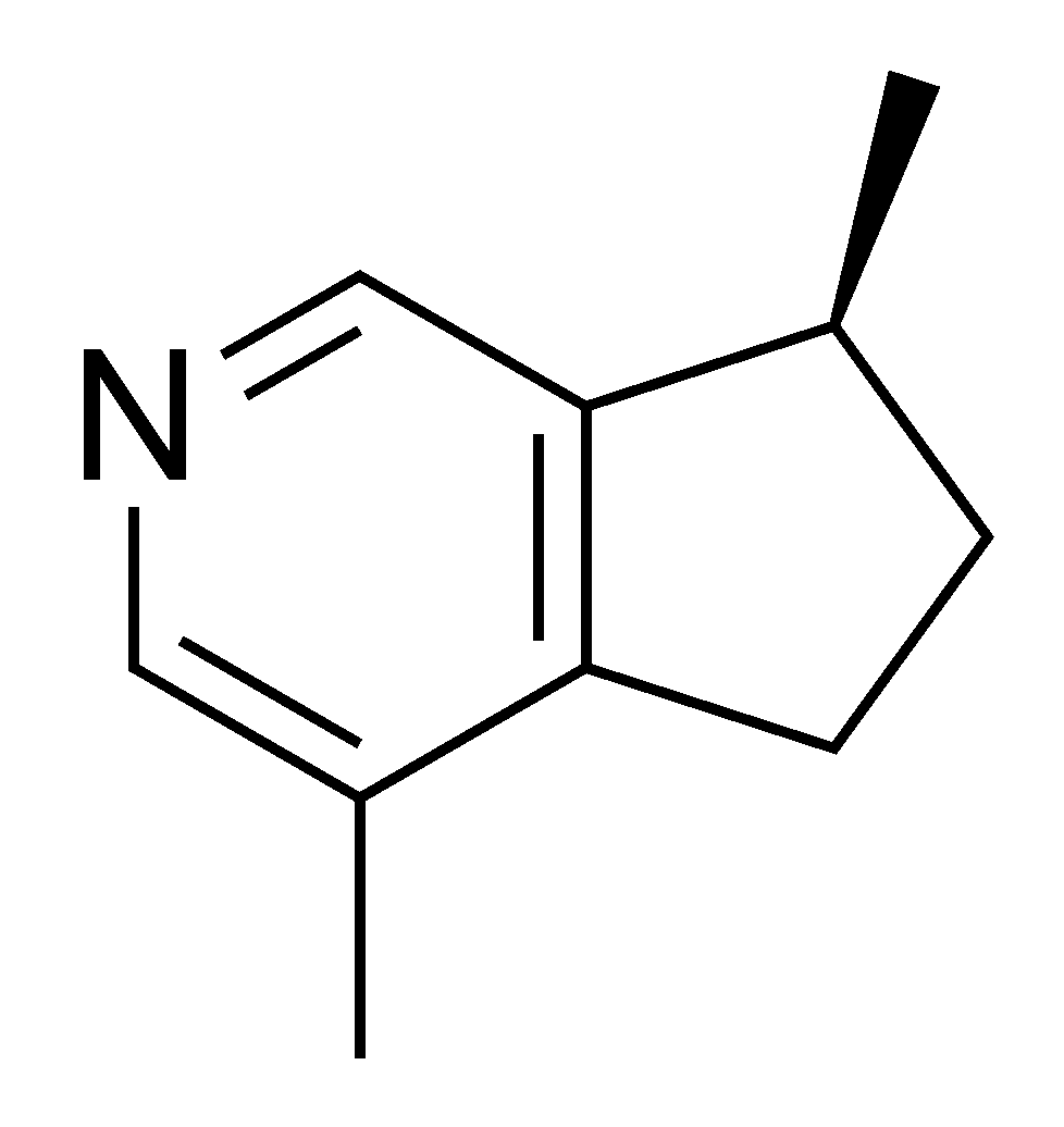 Chemical structure of the cat attractant actinidine